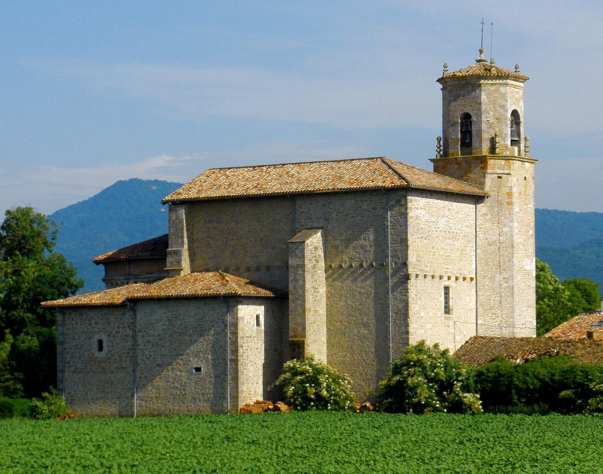 Iglesia de la Natividad de Nuestra Señora de Añua, municipio de Elburgo (Álava, País Vasco, España)